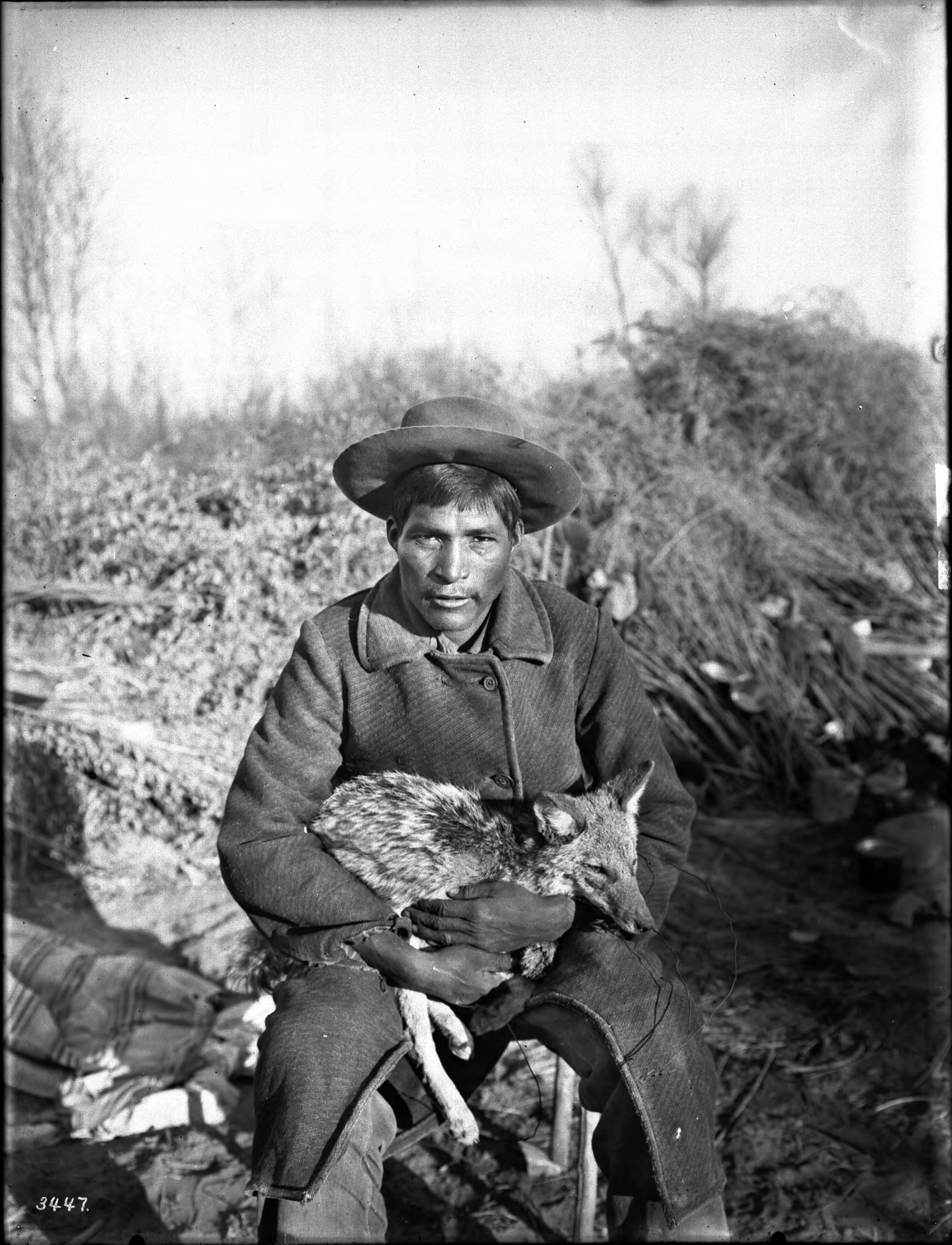 Young Chemehuevi Indian man holding a coyote, ca.1900 Photograph of a young Chemehuevi Indian holding a coyote, ca.1900. The coyote is held tightly in the man's arms and hands against the man's right thigh and waist. He is wearing a hat pushed far back on his head, a long jacket, and trousers. He is sitting outside on a wooden chair. A striped blanket sits on the ground behind him (left). Bushes and small trees grow behind him. Call number: CHS-3447 Photographer: Pierce, C.C. (Charles C.), 1861-1946 Filename: CHS-3447 Coverage date: circa 1900 Part of collection: California Historical Society Collection, 1860-1960 Type: images Part of subcollection: Title Insurance and Trust, and C.C. Pierce Photography Collection, 1860-1960 Repository name: USC Libraries Special Collections Format: glass plate negatives Microfiche number: 1-164-; 1-74-14 Archival file: chs_Volume95/CHS-3447.tiff Repository address: Doheny Memorial Library, Los Angeles, CA 90089-0189 Geographic subject (country): USA Format (aacr2): 2 photographs : glass photonegative, photoprint, b&w ; 22 x 17 cm. Rights: Digitally reproduced by the USC Digital Library; From the California Historical Society Collection at the University of Southern California Subject (adlf): tribal areas Project: USC Accession number: 3447 Repository Contributing entity: California Historical Society Date created: circa 1900 Publisher (of the digital version): University of Southern California. Libraries Format (aat): photographic prints; photographs Legacy record ID: chs-m16066; USC-1-1-1-13493 Access conditions: Send requests to address or e-mail given. Phone (213) 821-2366; fax (213) 740-2343. Subject (file heading): Indians -- Chemehuevi Subject (lcsh): Indians of North America; Chemehuevi Indians; Men; Coyotes Subject: Chemehuevi Indians; Indians; Chemehuevi Indians